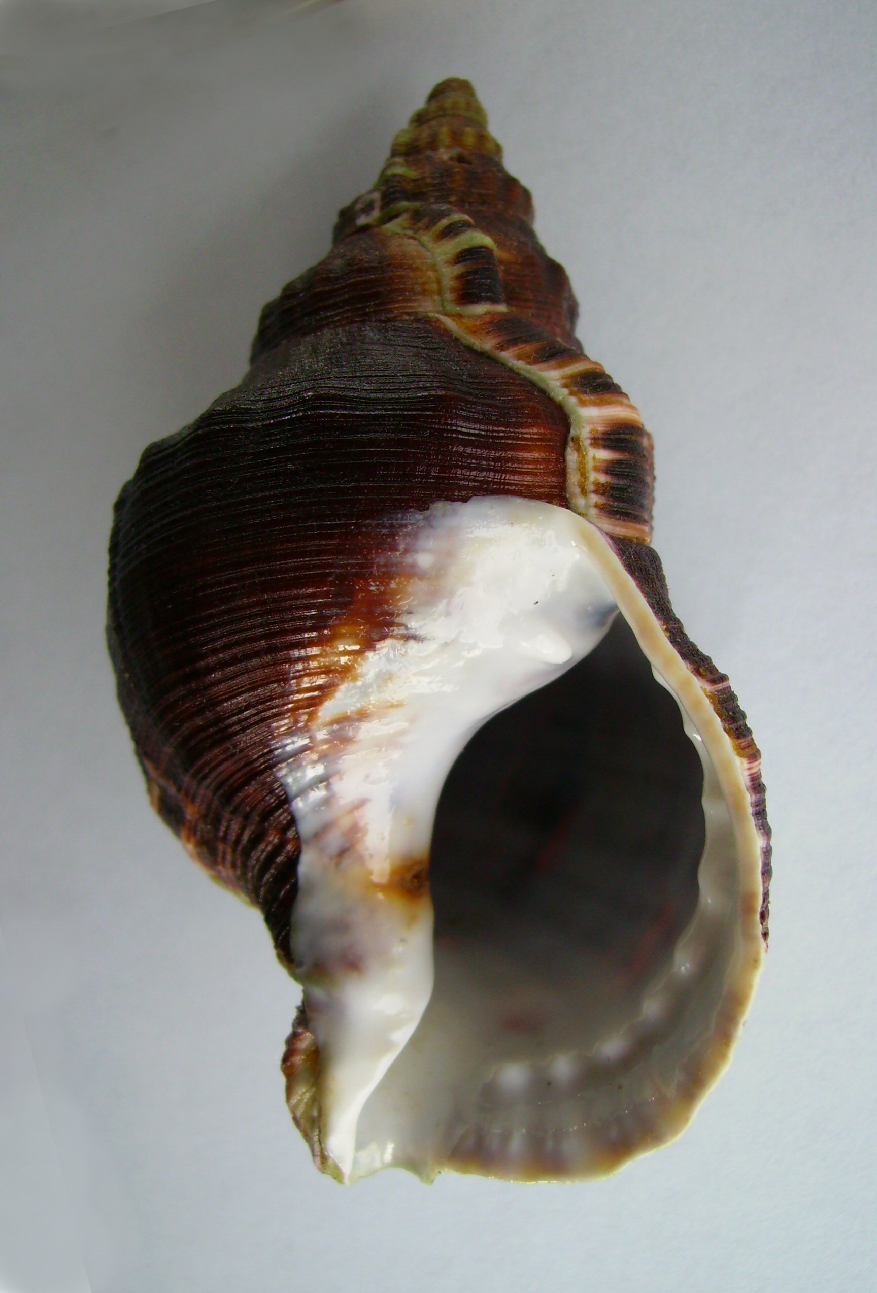 Ranella australasia, synonym: Mayena australasia australasia (underside) from Whangarei Heads, New Zealand.